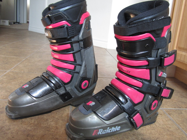 The photo shows a pair of Raichle Flexon Comp ski boots, a late model built at a new factory (the exact details are not known).